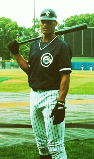 This photo was taken by user dlz28 and is released into the public domain. 17:16, 1 May 2006 . . Dlz28 . . 303×512 (75 KB)